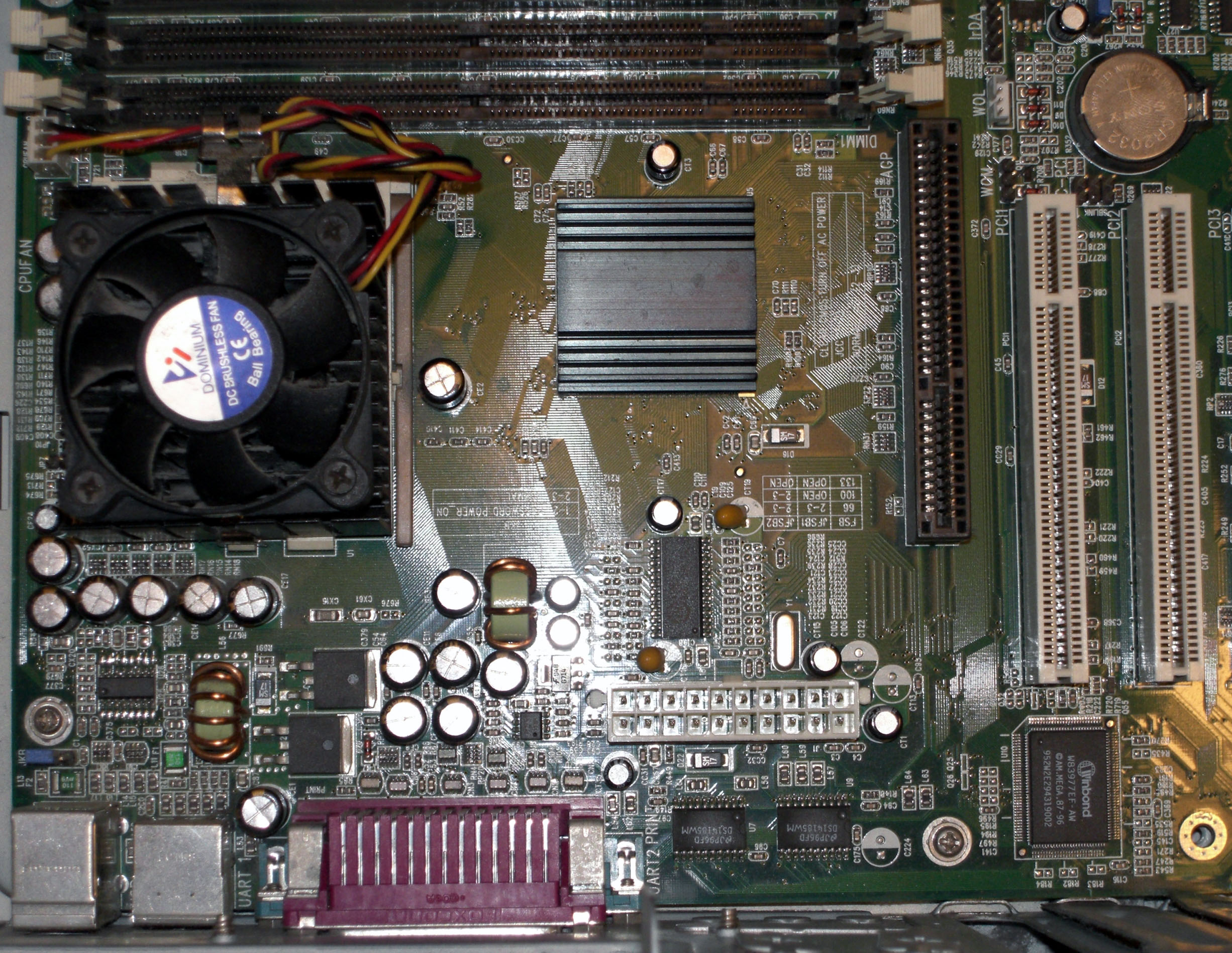 Motherboard QDI Advance 9 Socket 370.